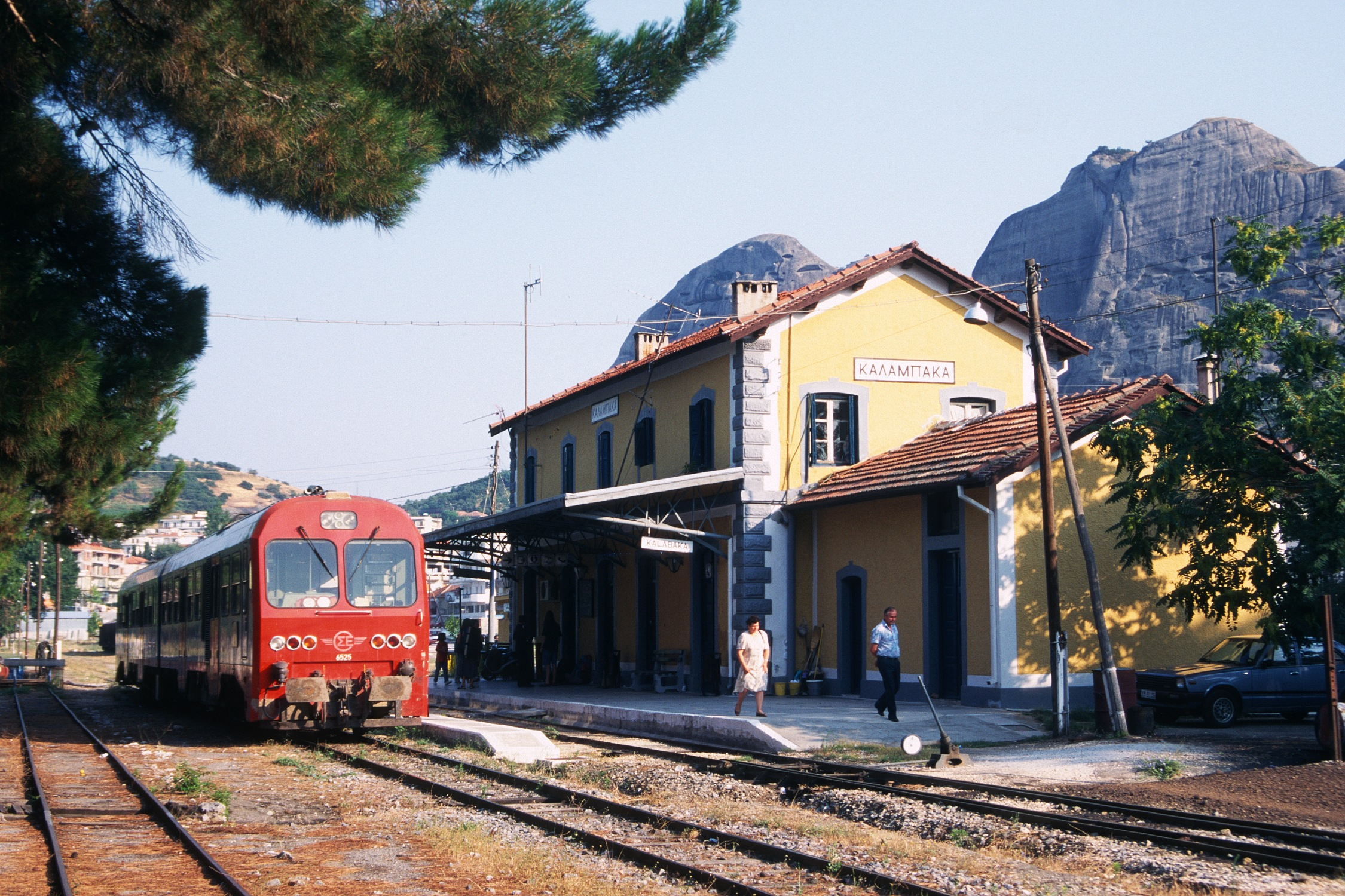 Kalambaka railway station with Meteora rocks in the background. The Volos–Kalambaka line was still in meter gauge that time.